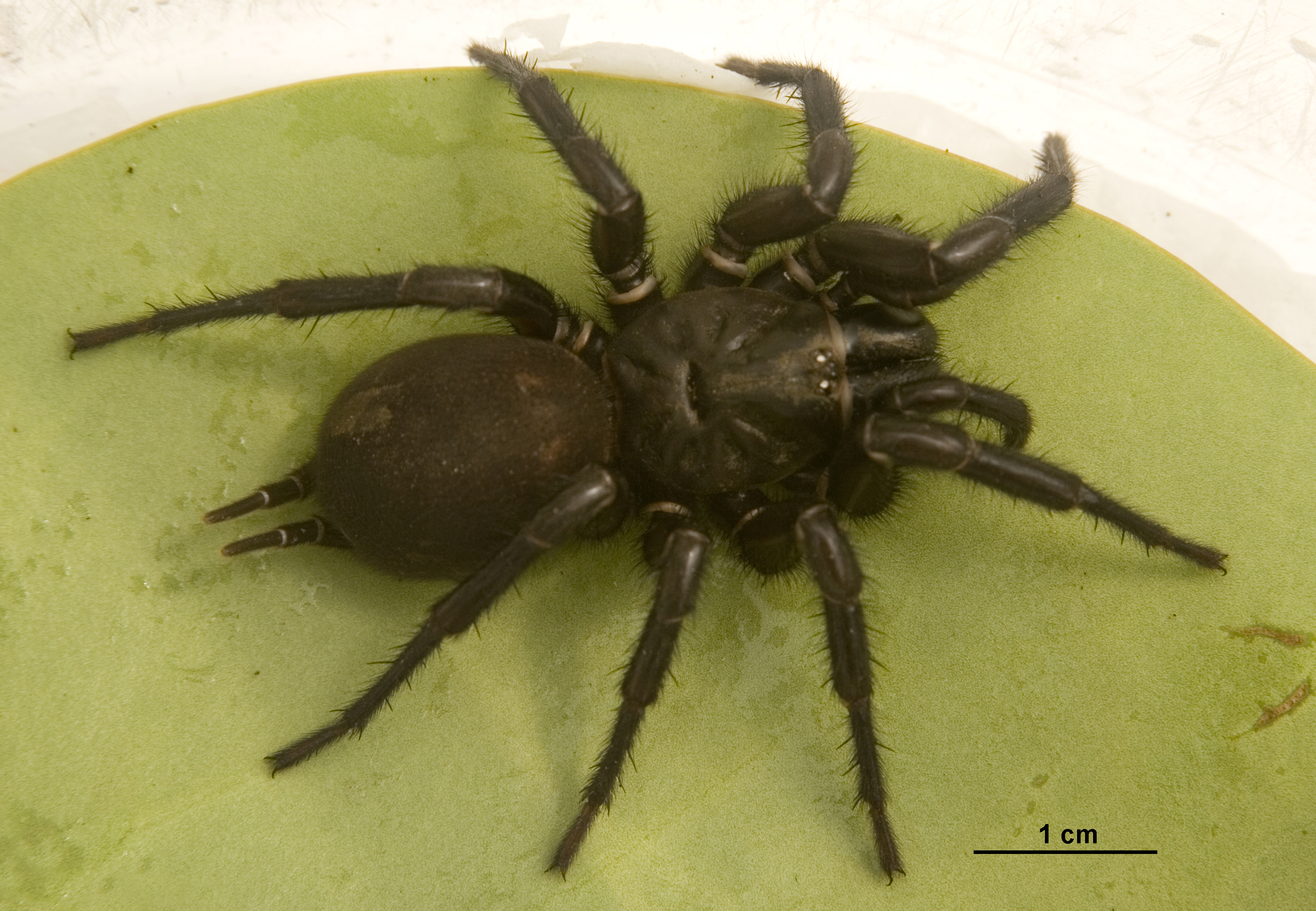 Female Tunnelweb spider (Porrhothele sp.)